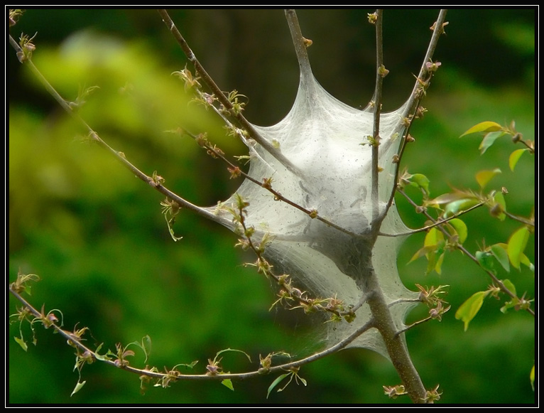 Web or tent of Eastern Tent Caterpillar taken by Greg Hume in Cincinnati, OH on April 20, 2006.